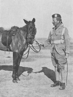 Colonel A. G. Wauchope, C.M.G., D.S.O.